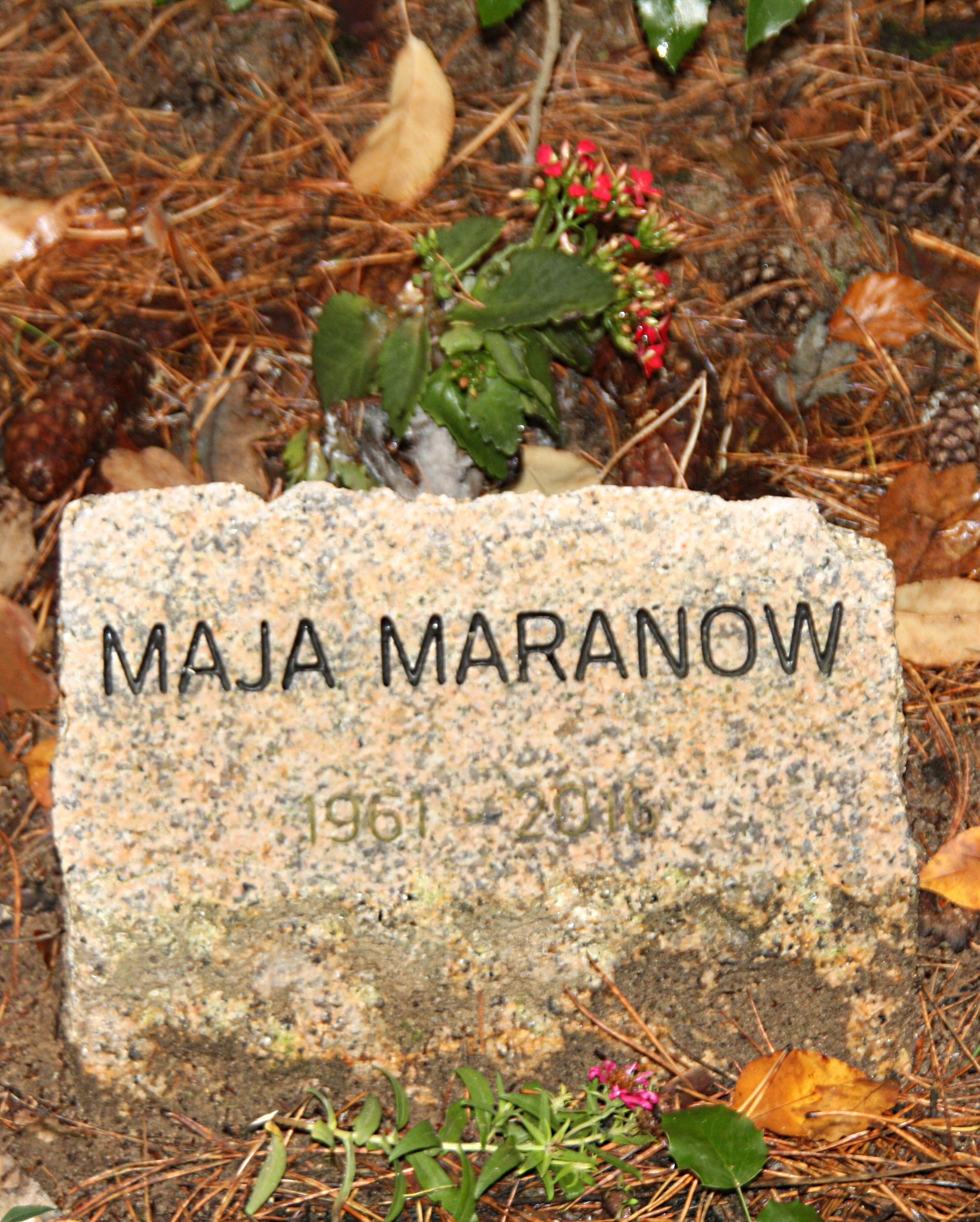 gravestone of german actress Maja Maranow at Southwestern Cemetery Stahnsdorf